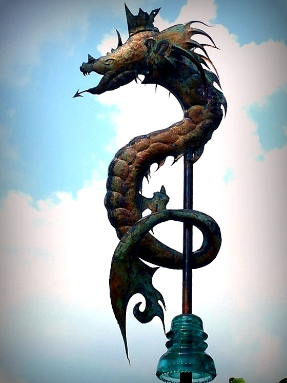 A lightning rod dedicated to Nikola Tesla. Made by sculptor David Smith, this piece is part of the permanent collection of the Tesla Science Center and Museum, Shoreham, New York.